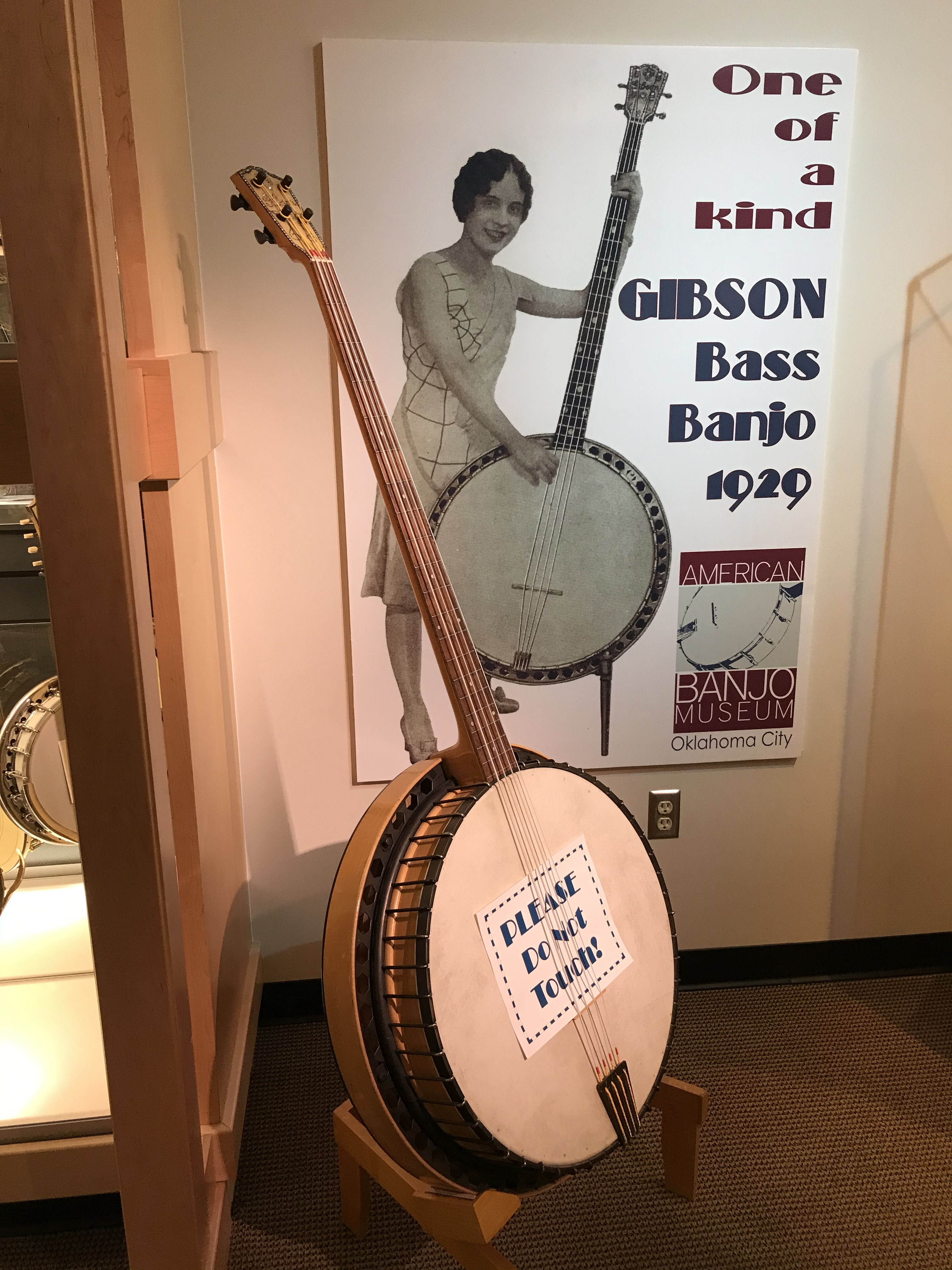 1929 Gibson Bass Banjo at American Banjo Museum. This instrument was the only one ever made, according to Mr. Bauer, the museum’s executive director.